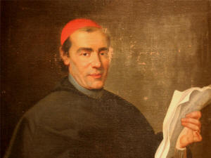 Cardinal Lorenzo Ganganelli, future Pope Clement XIV